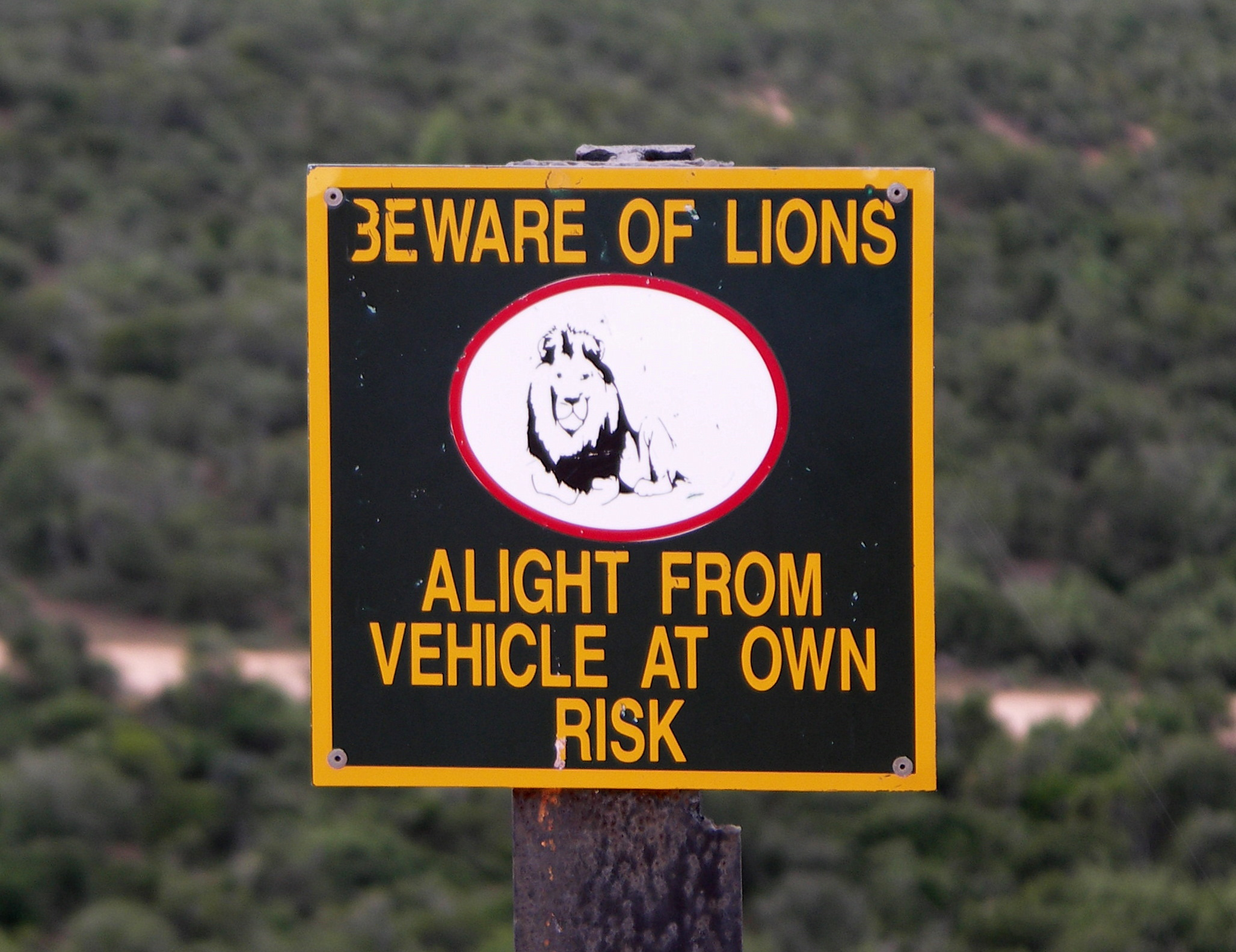 Sign at Zuurkop lookout point in the Addo Elephant National Park